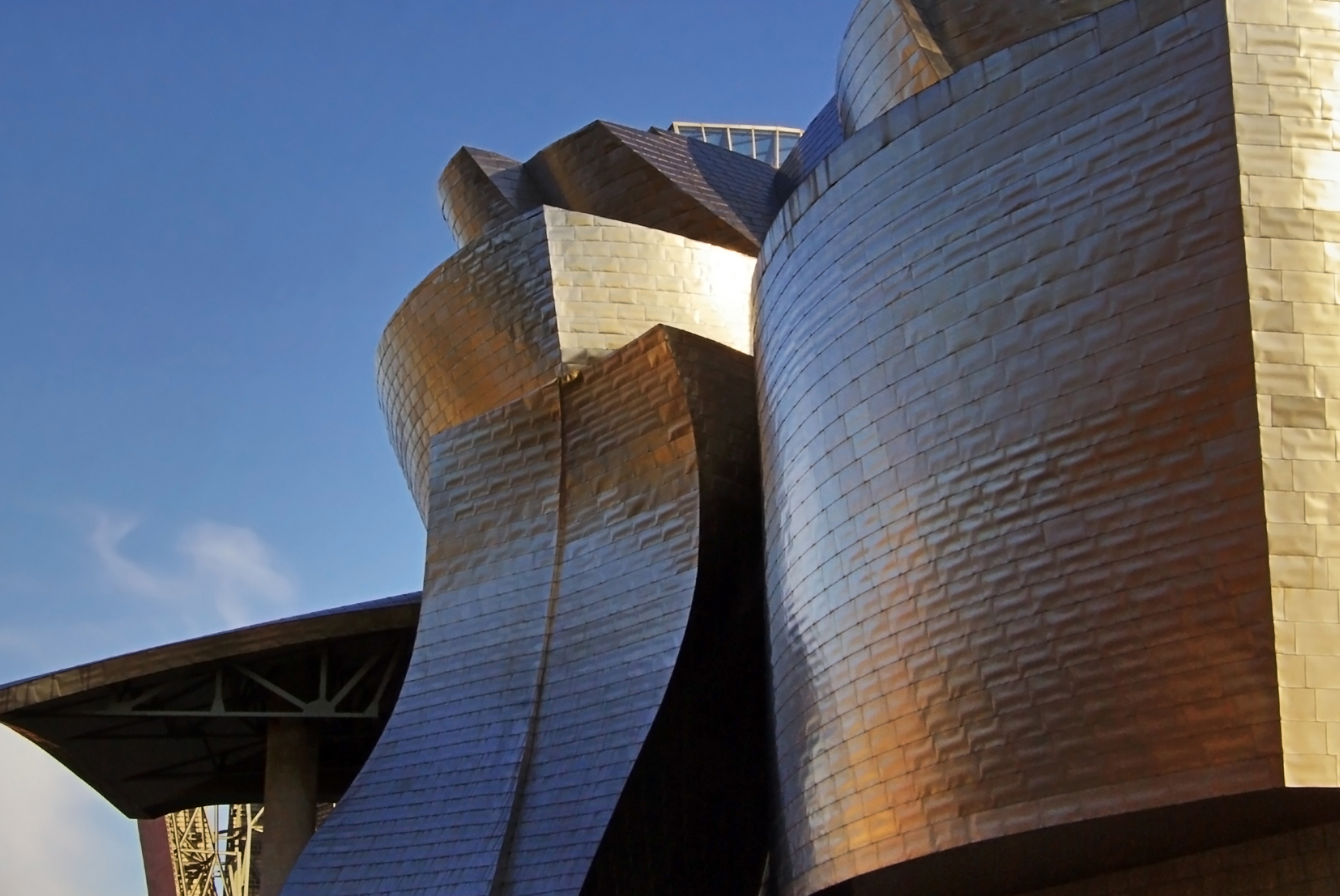 Detail of the Guggenheim Bilbao´s titanium panels